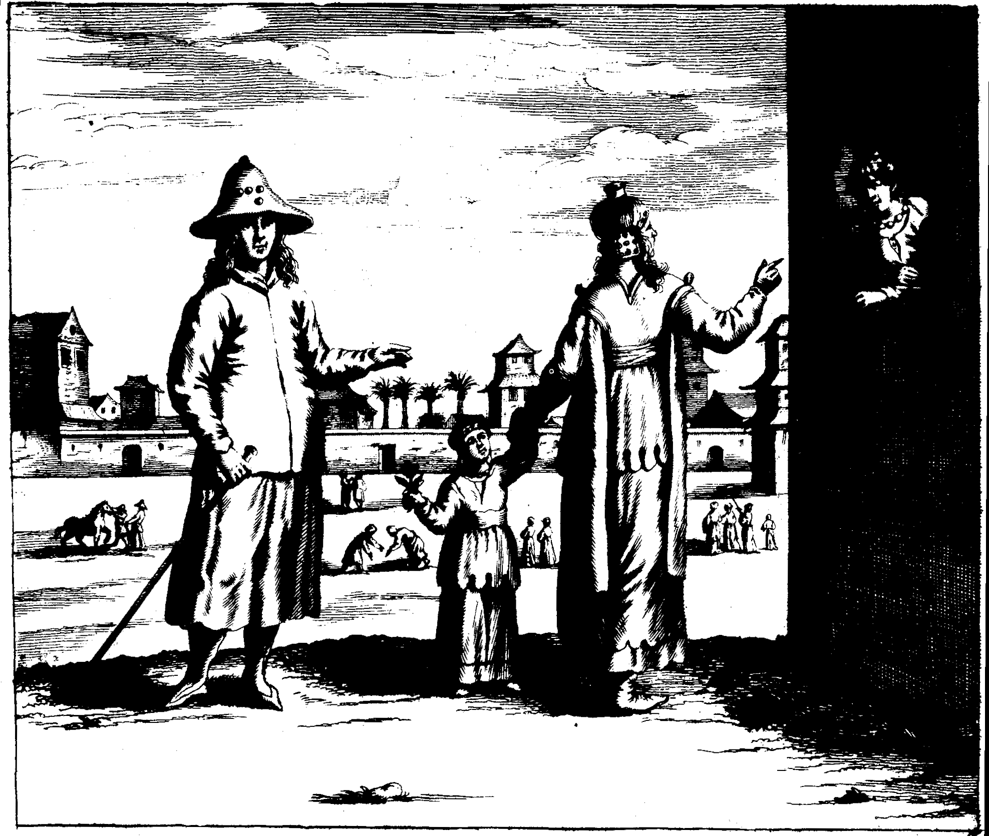 Left. Dress of noble women of the Tanguth Kingdom. Center. Dress of women near Cuthi, the capital of the kingdom of Necbal. Right. Dress of the Kingdom of Necbal.